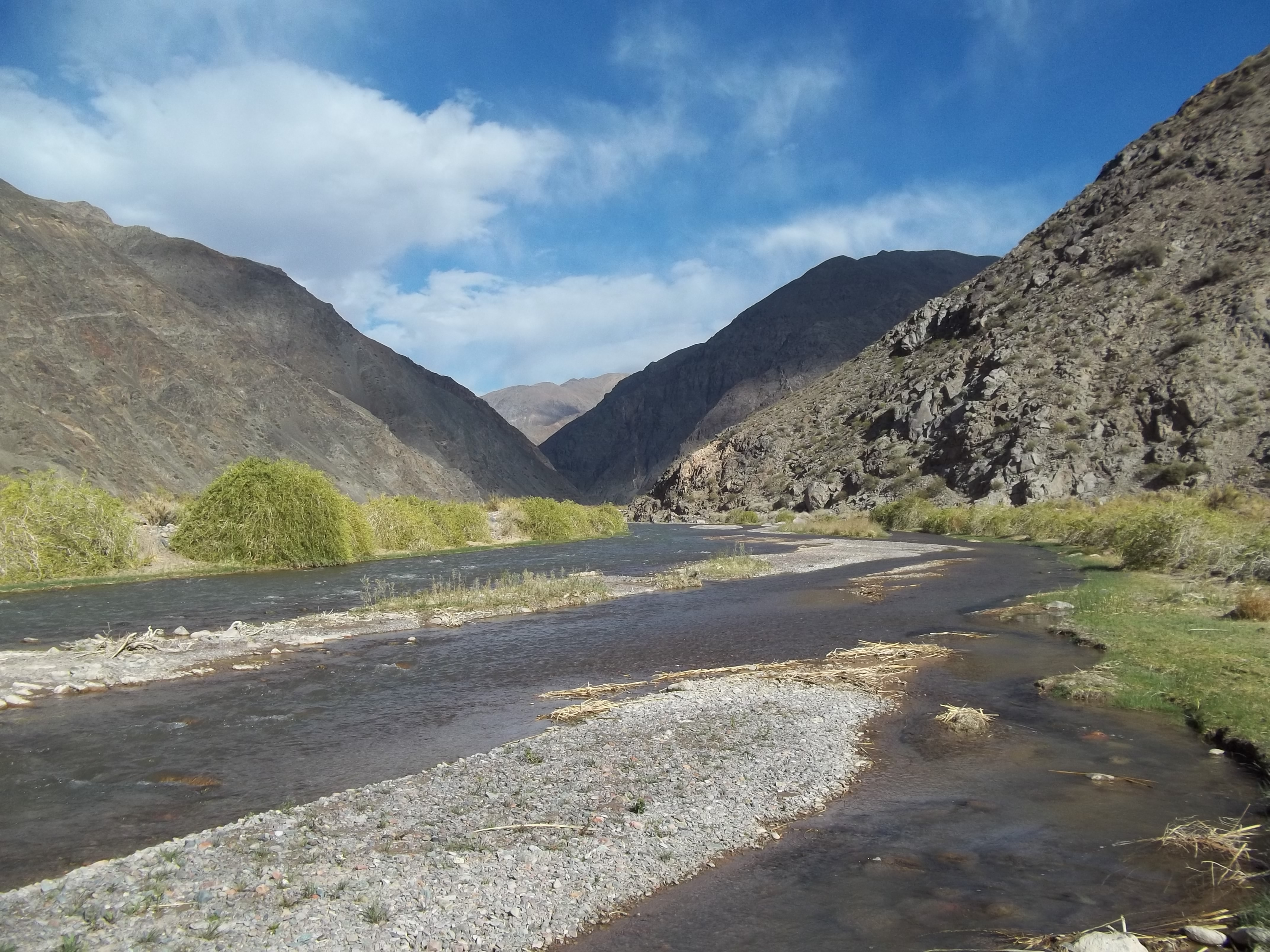 Castaño River